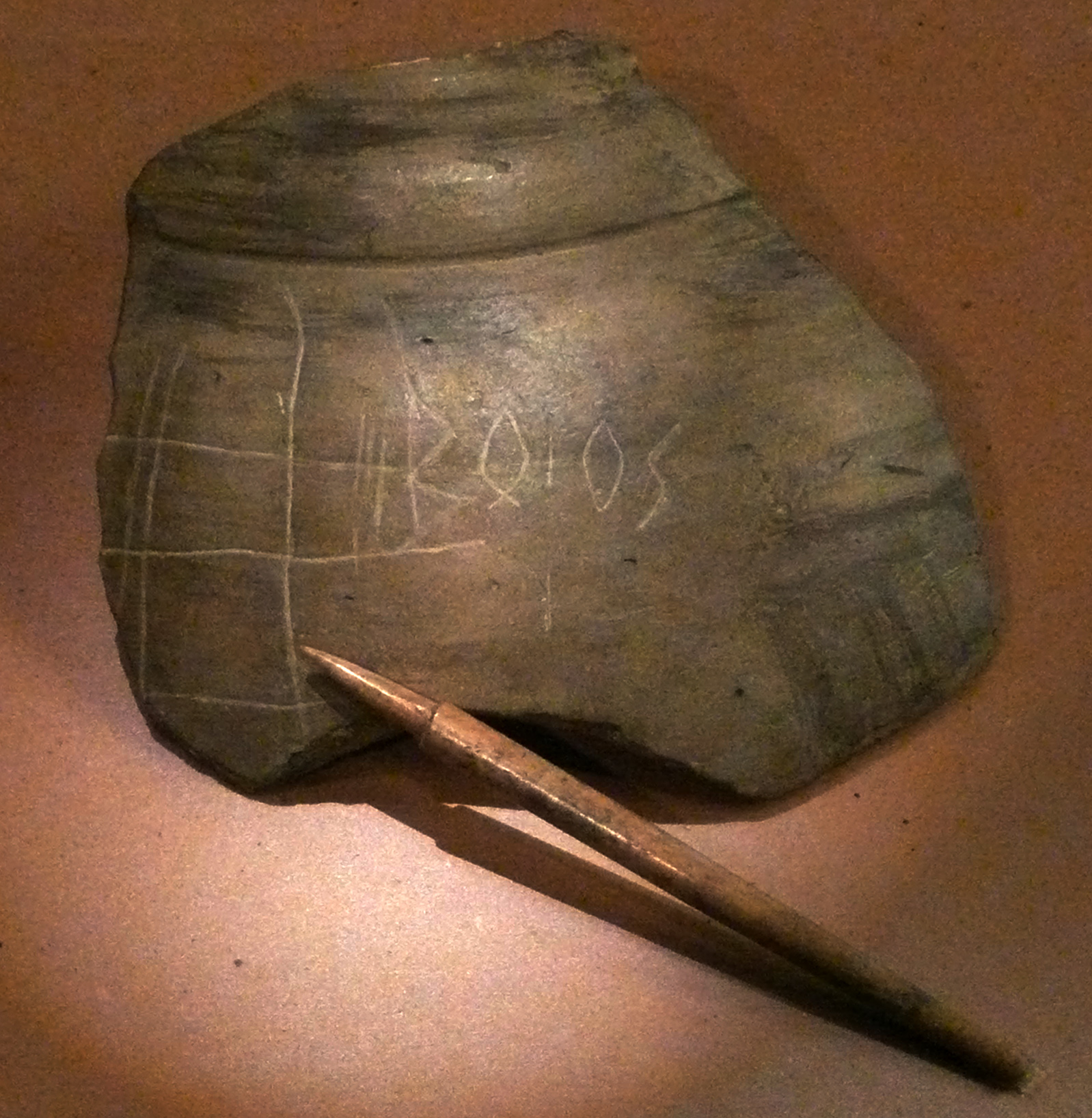 Inscription "BOIOS" or "BAIOS" on a celtic ceramic fragment from Manching in the kelten römer museum manching.